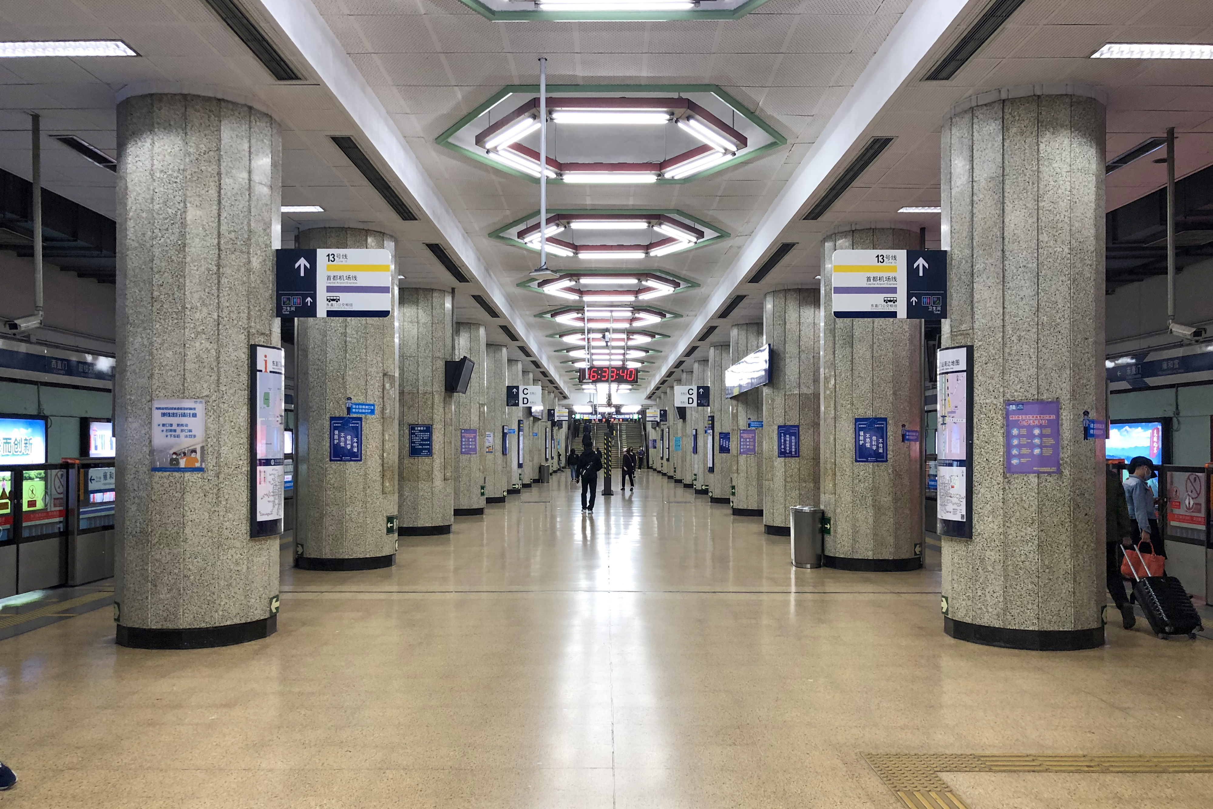 That's it...